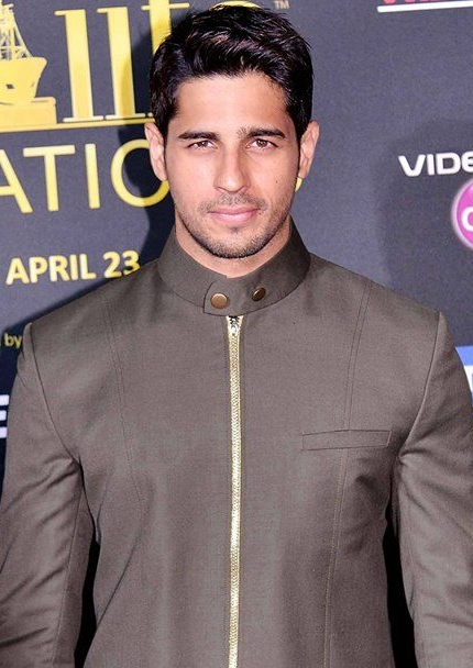 Sidharth Malhotra at IIFA awards 2014